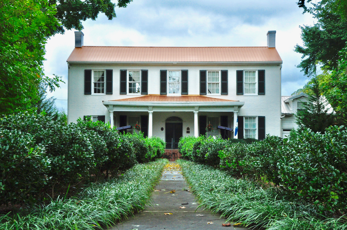 The Bray Place is listed on the National Register of Historic Place in 1980